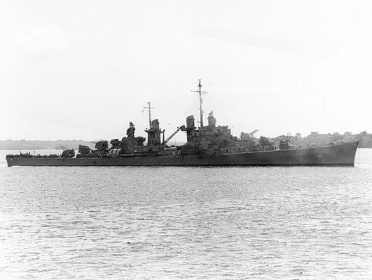 Broadside view of the U.S. Navy light cruiser USS Atlanta (CL-51) backing down in a South Pacific harbour, 25 October 1942.